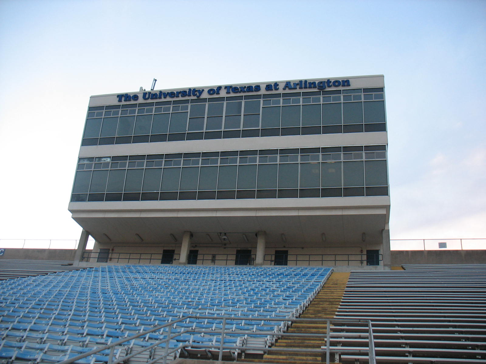 A shot taken from the home stands showing Maverick Stadium's press box and suites